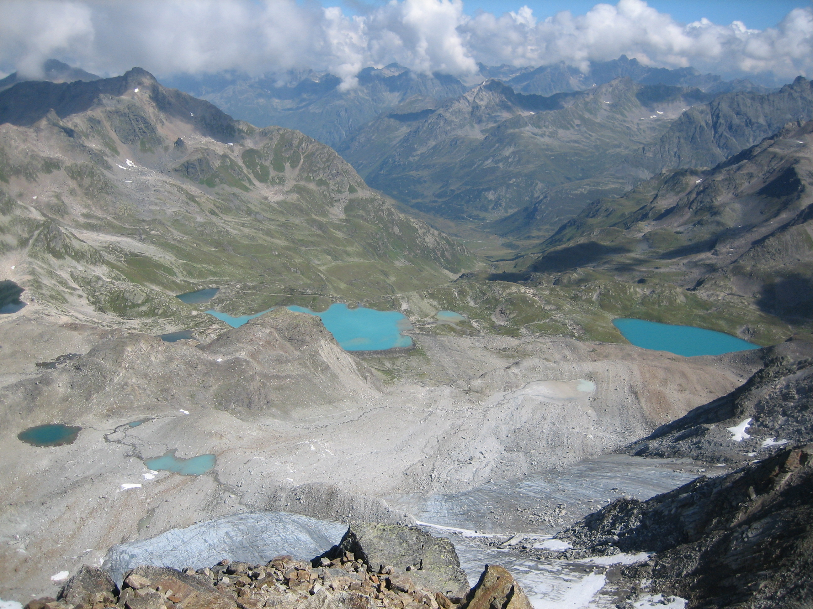 Jöriseen from Flüela Wisshorn, Davos, Susch, Grison, SwitzerlandRumantsch: Lais da Jöri, piglia se digl Flüela Wisshorn, Tavo, Susch, Grison, Svizra